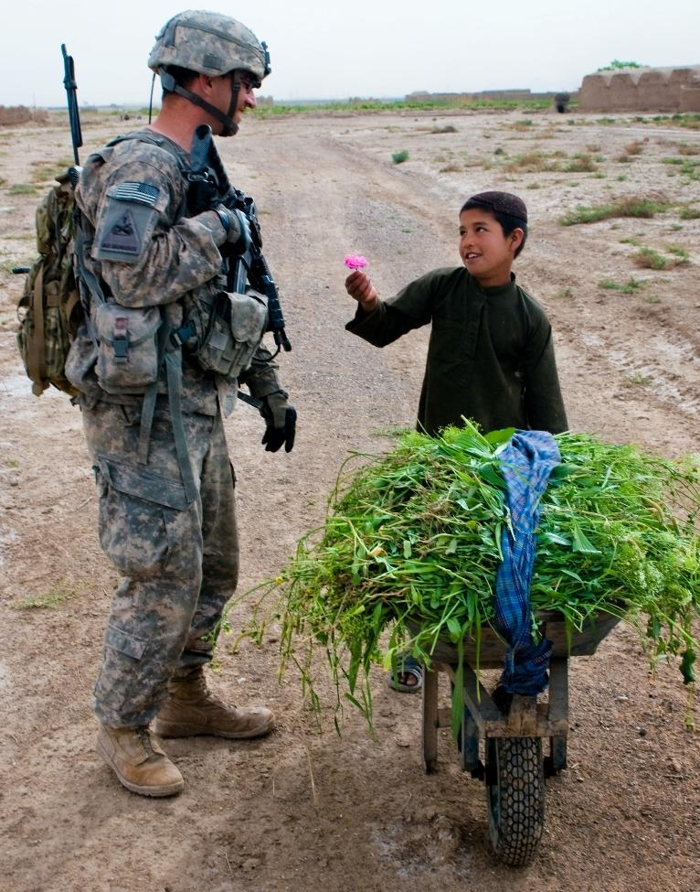 An Afghan child offers a flower to U.S. Army Sgt. John M. Davis, a team leader for 3rd Platoon, Mad Dog Troop, 4th Squadron, 2nd Stryker Cavalry Regiment from Vilseck, Germany, during a patrol near Kandahar Airfield, Afghanistan, April 14, 2011. Davis, a Pocatello, Idaho, native, has a working proficiency of Pashto, one of the main languages in Afghanistan, and often speaks with children during patrols.